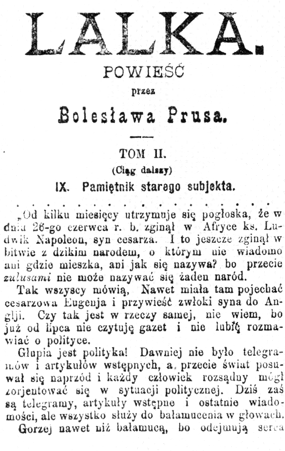 "Lalka" in the "Kurier Codzienny" newspaper, 1889